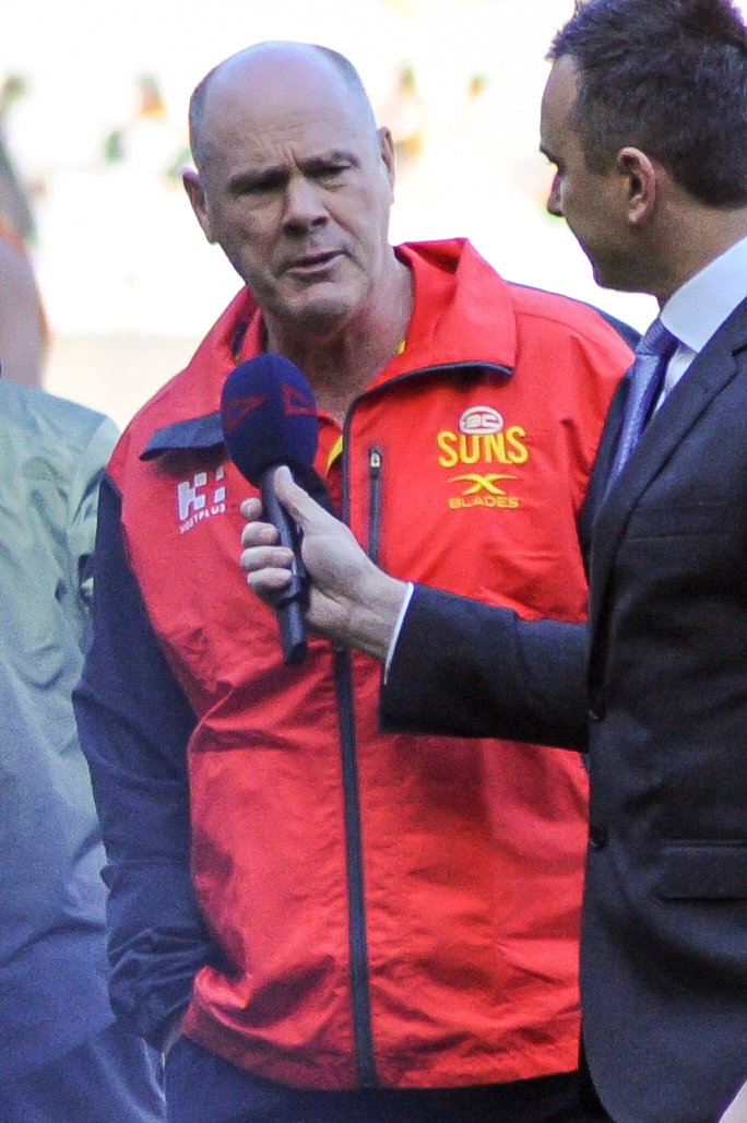 Rodney Eade during the AFL round twelve match between Melbourne and Collingwood on 10 June 2017 at the Melbourne Cricket Ground in Melbourne, Victoria.